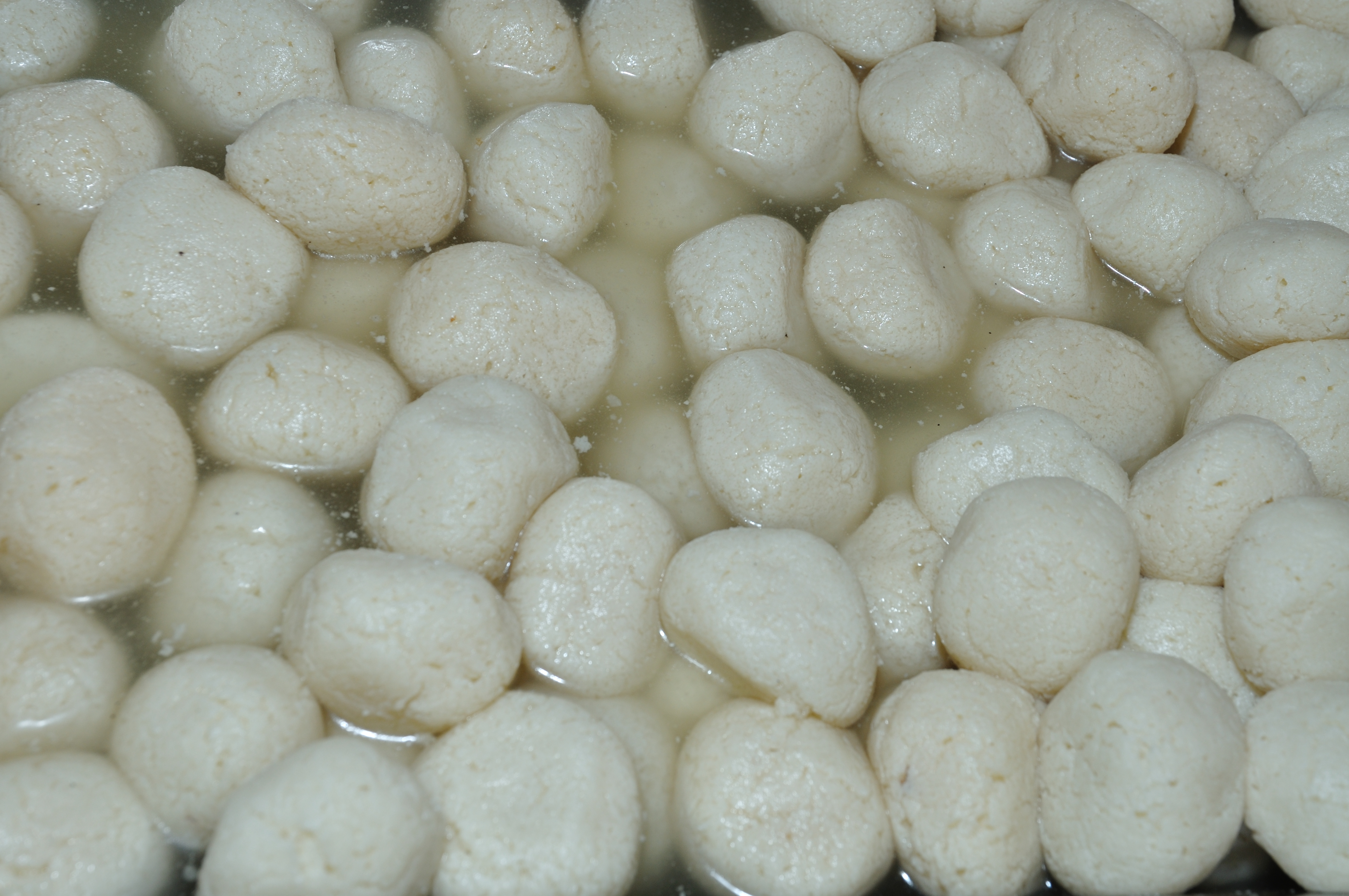 Rasgulla (Sanskrit:रसगोलकम्) rasagolakam Odia: ରସଗୋଲା rasagolaa; Bengali: রসগোল্লা rôshogolla; Hindi: रसगुल्ला rasgullā) is a very popular cheese based, syrupy sweet dish originally from the Indian state of Bengal & Orissa.